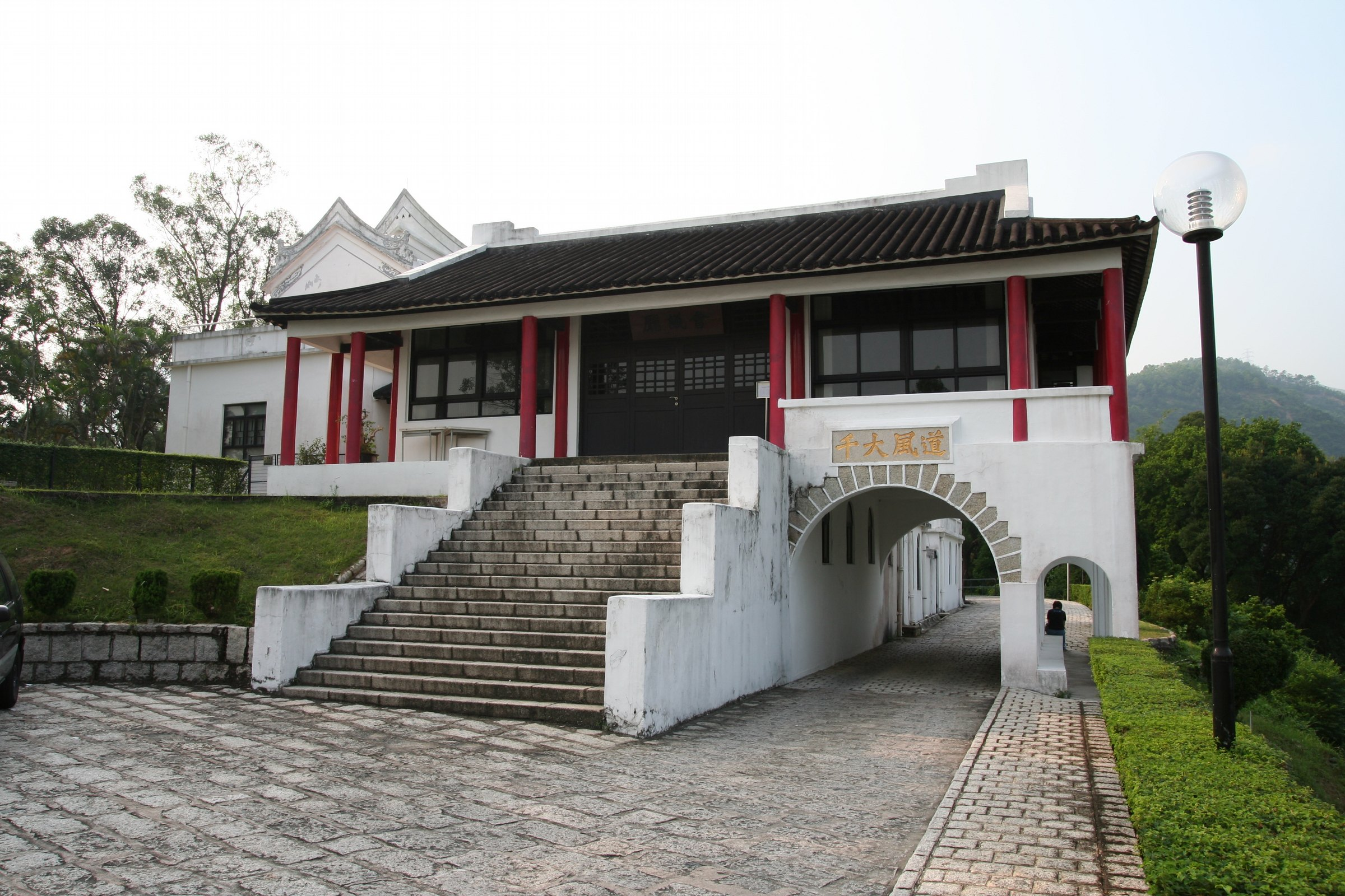 Tao Fong Shan (道風山) is a hill located in Shatin in Hong Kong's New Territories. Photograph author is me.